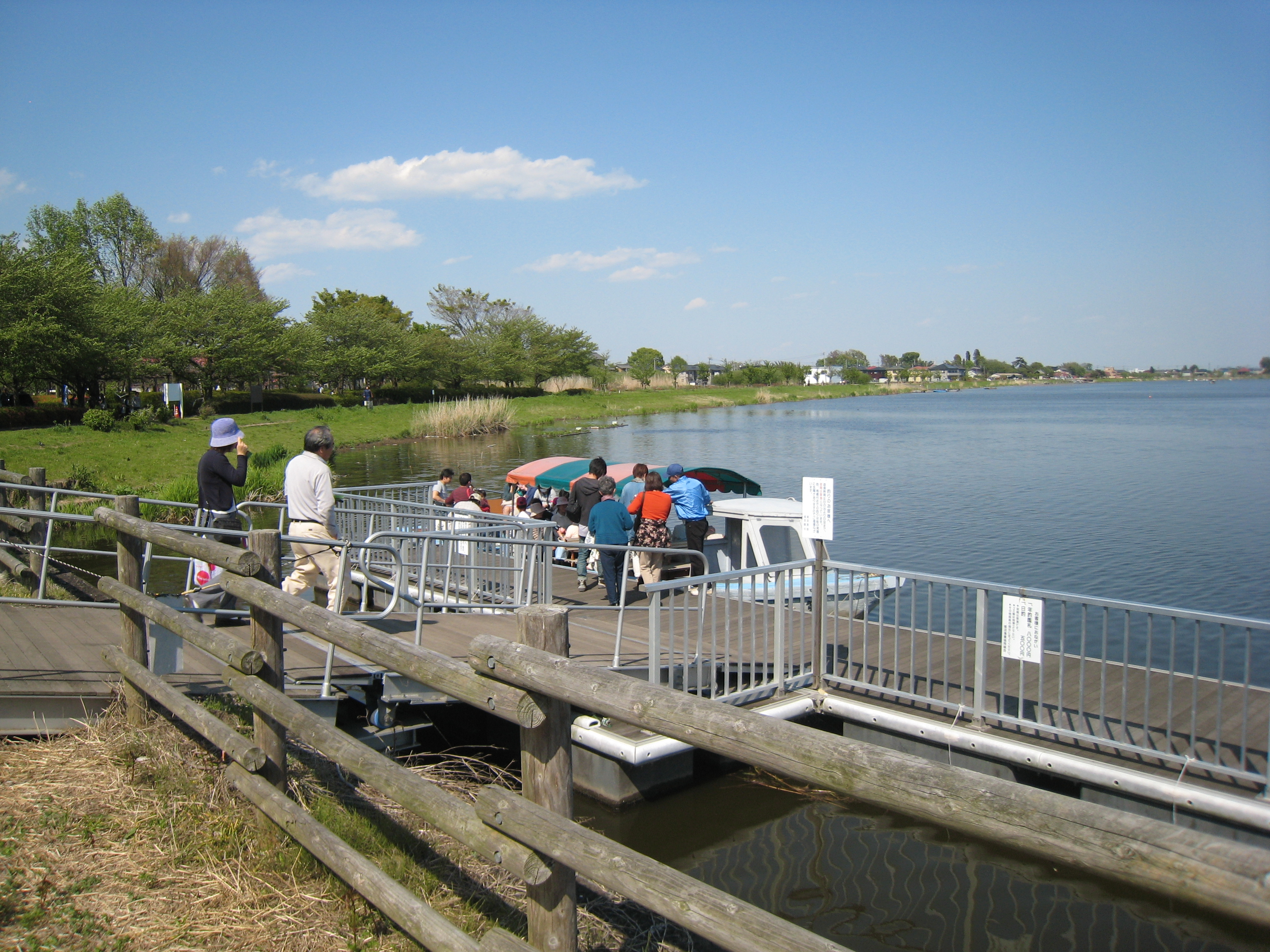 A small ferry boat(Watashi-bune in Japanese) that carries passengers between Obiki-shrine and Tsutsuji-ga-oka Park across Jonuma in Tatebayashi, Gunma Prefecture.